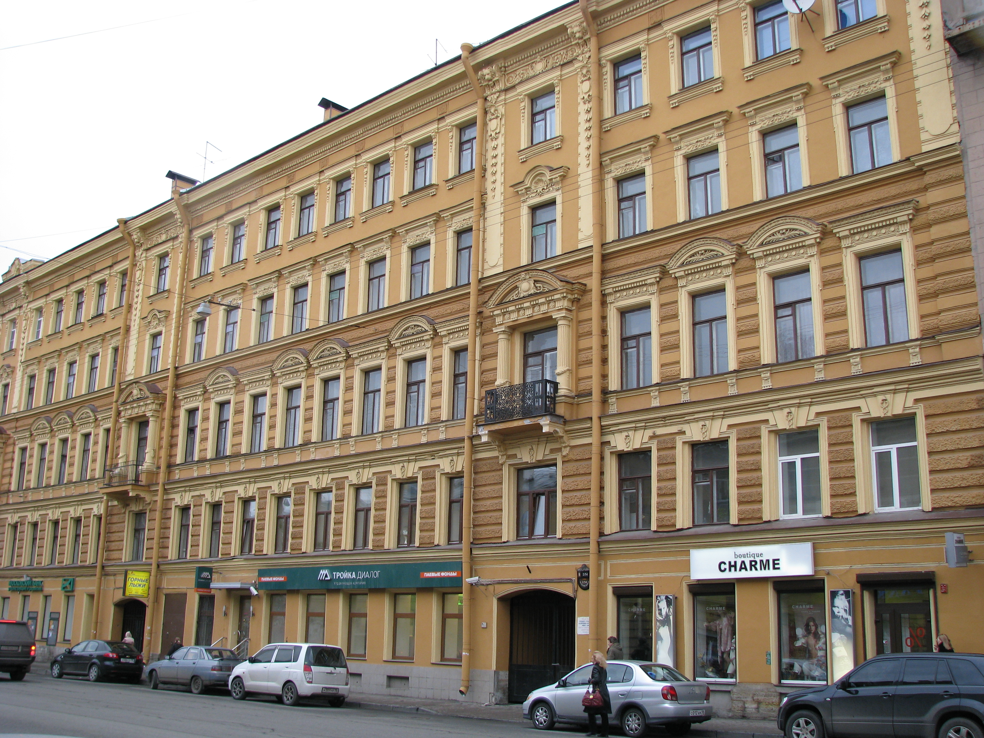 Zhukovskogo Street, 2 - Liteyny avenu, 54 (Saint Petersburg). Build in 1877. Architect Foma Ivanovich Vinterhalter.